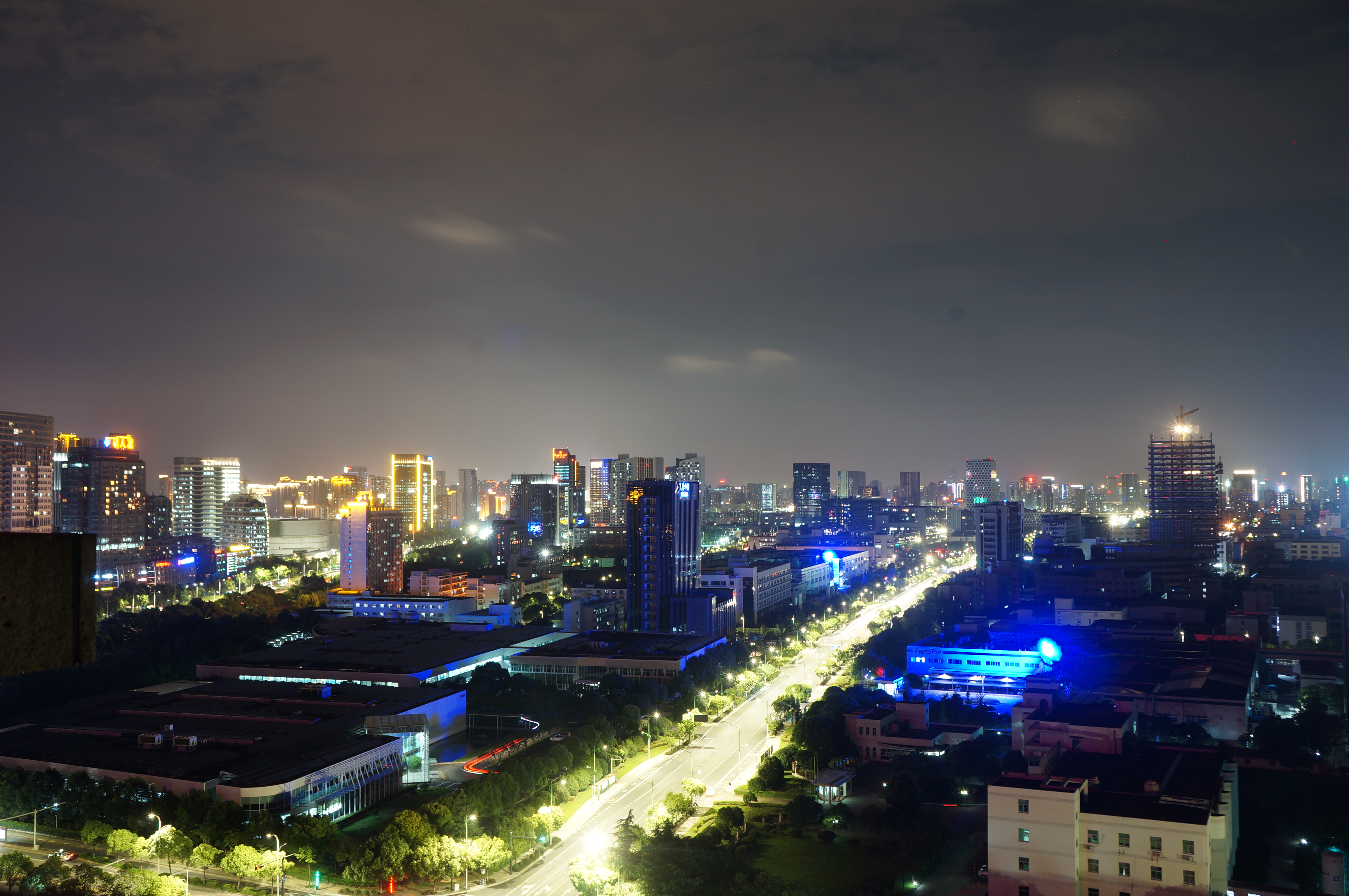 201607 Binjiang Overview